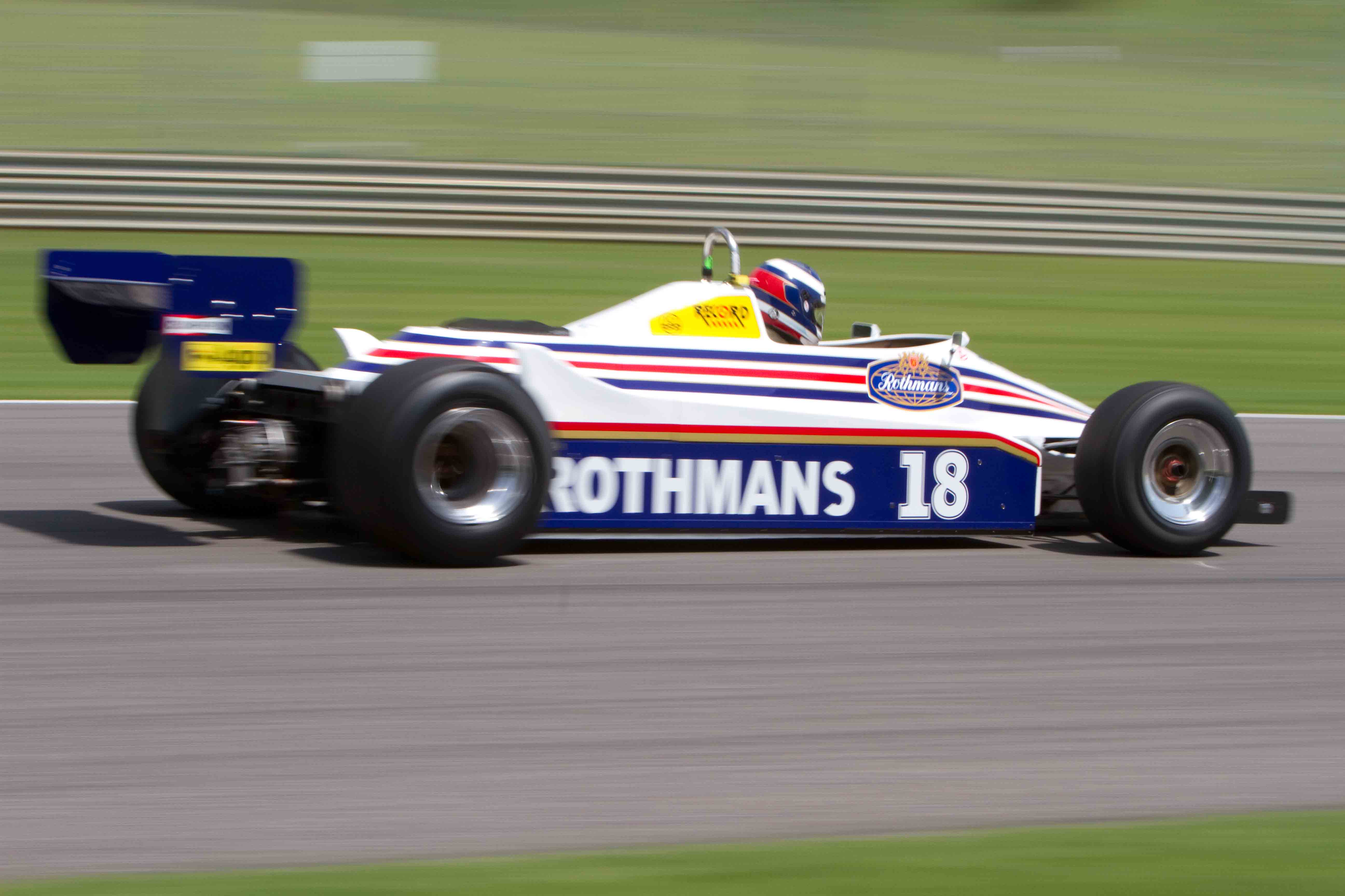 Ram-March 821 1982 at Barber Motorsports Park, 2010